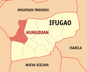 Map of Ifugao showing the location of Hungduan